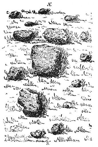 Megalithic Tomb Zarnewanz (Sprockhoff-No. 346)